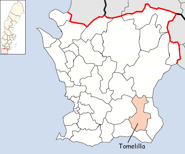 Tomelilla Municipality in Scania, Sweden Designed by me. Mere outlines are a PD source from